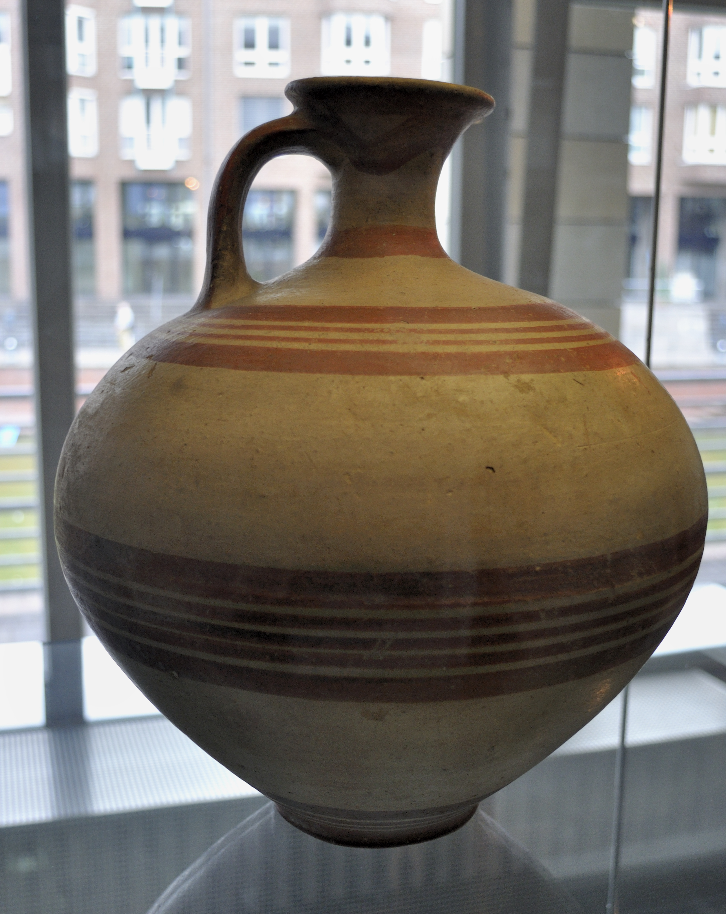 Picture taken in Hetjens-Museum Düsseldorf before Duisburg summer meetup 2010.